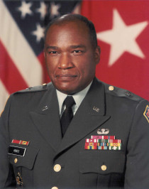 Lieutenant Colonel Charles A. Hines, circa 1979, from past commanders of the 519th Military Police Battalion.